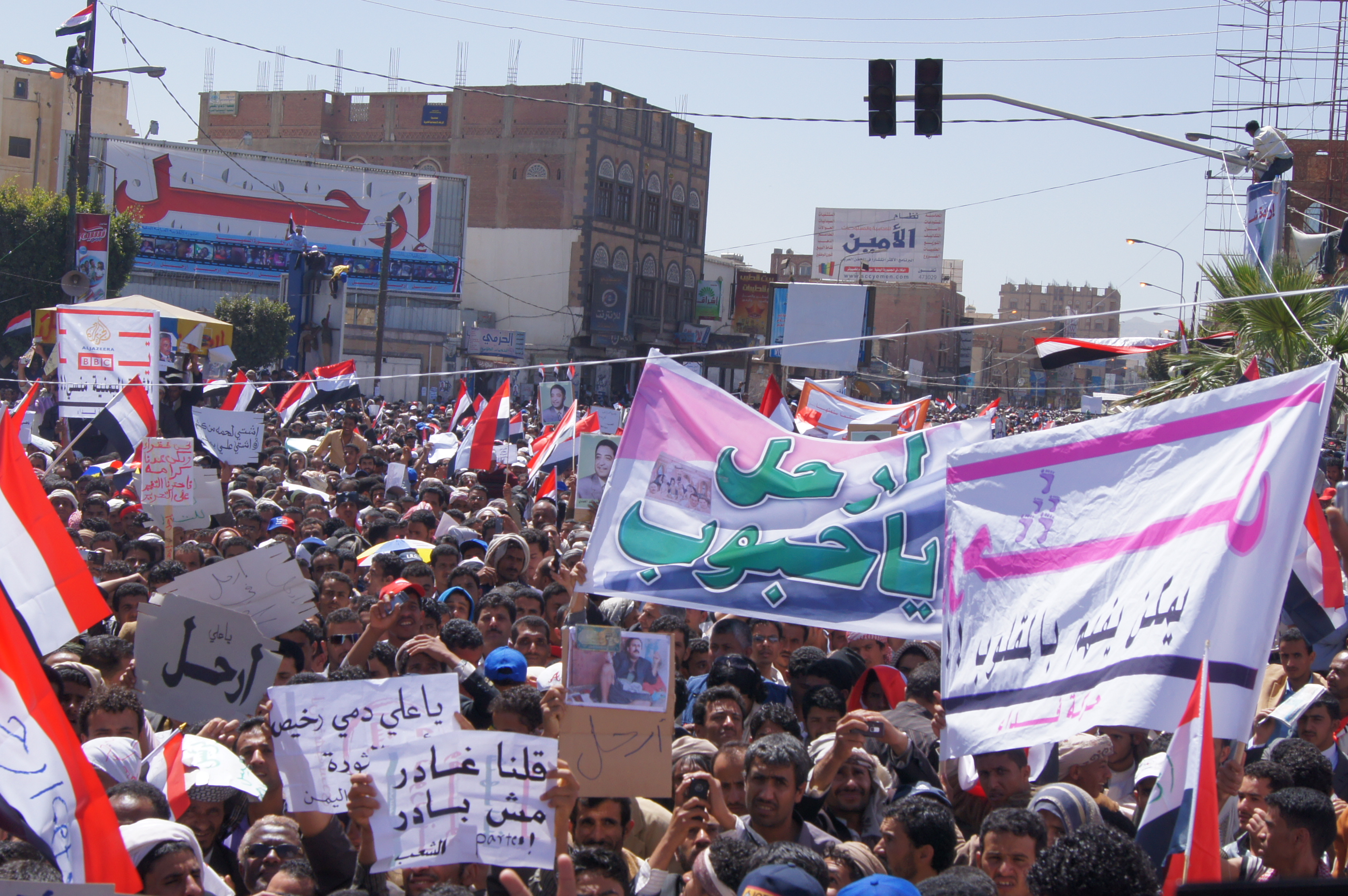 Tens of thousands of protesters marching to Sana'a University, joined for the first time by opposition parties, during the 2011–2012 Yemeni revolution.